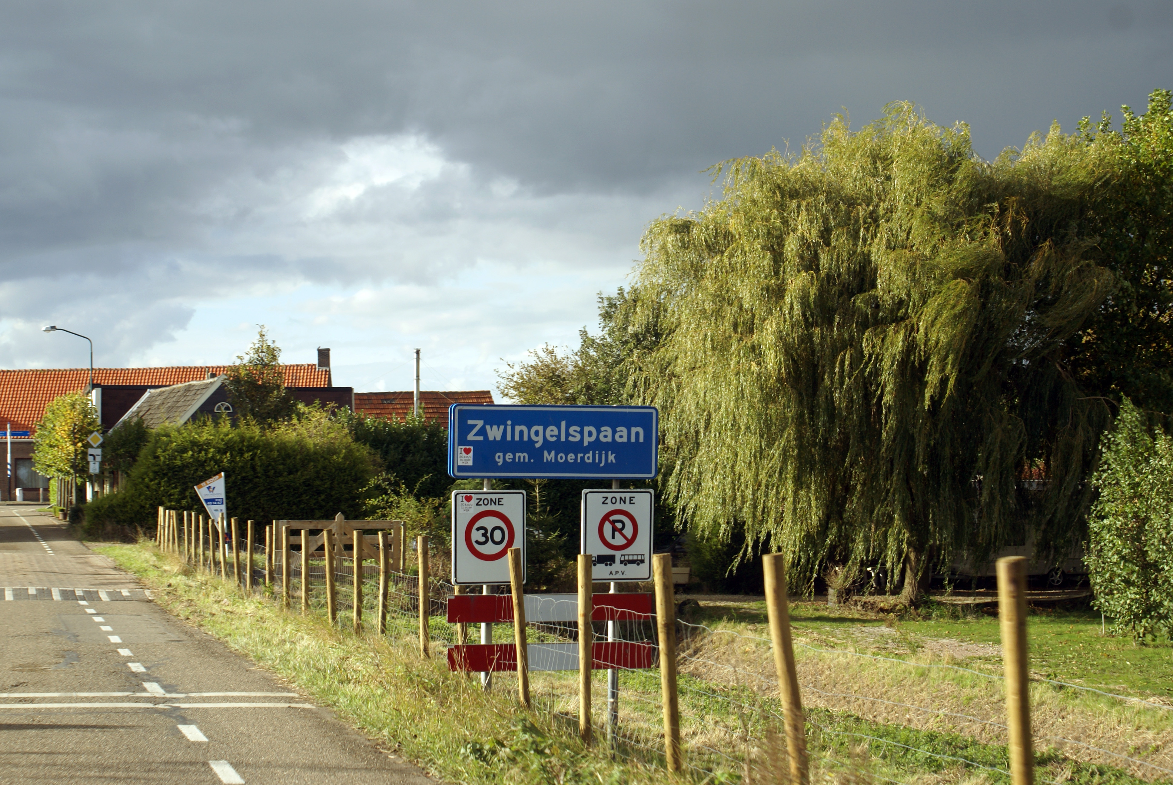 Entering Zwingelspaan